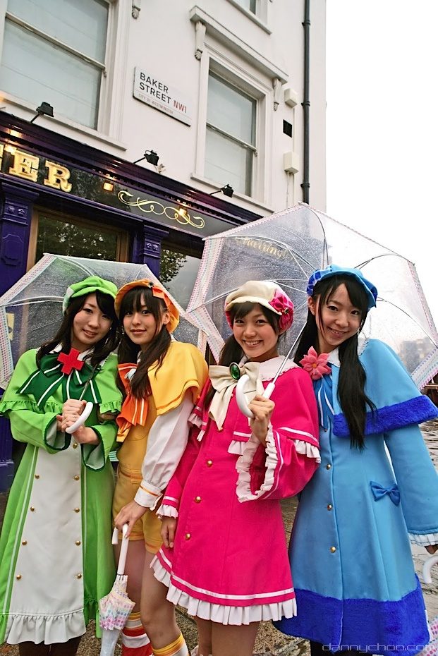 View more at